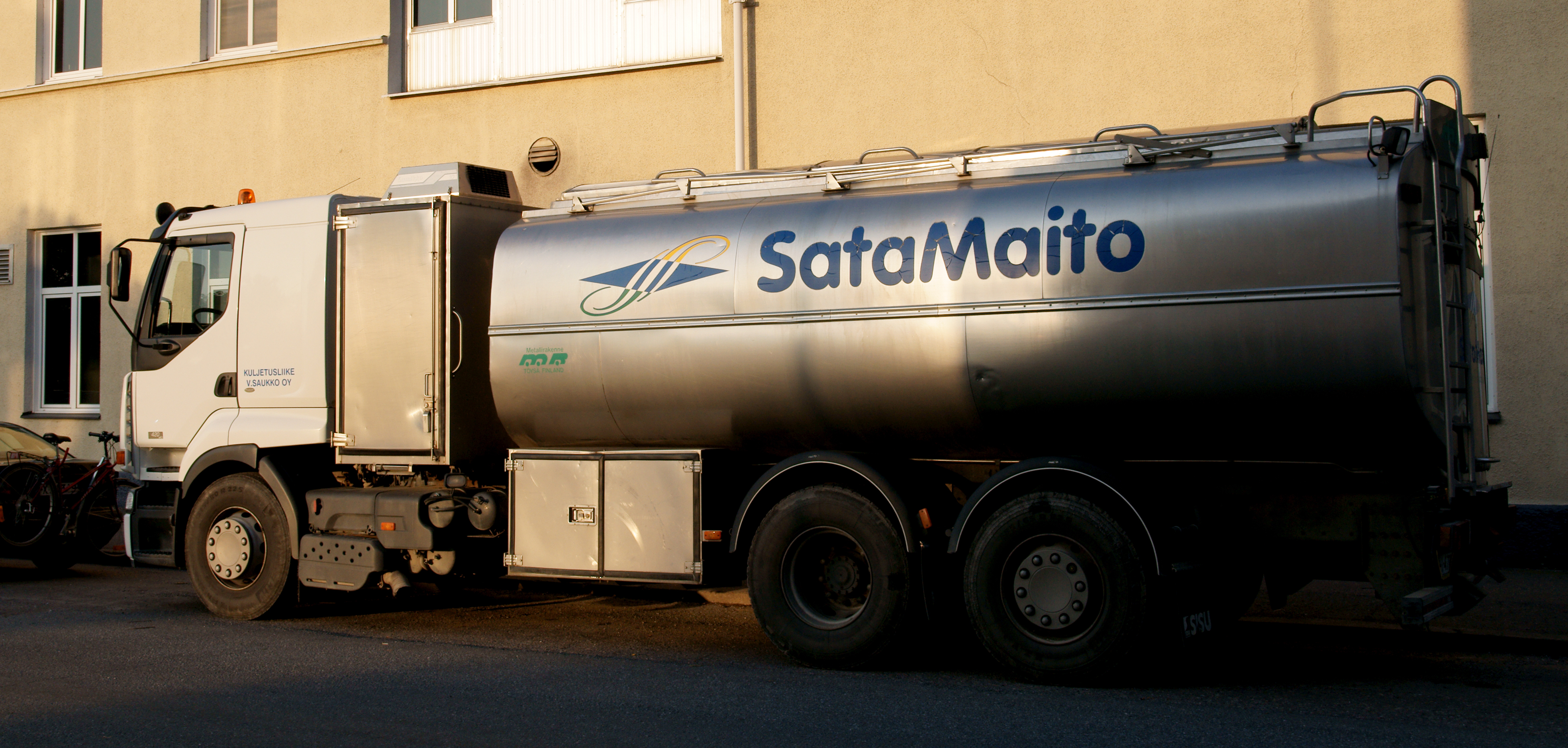 Satamaito-milk truck.